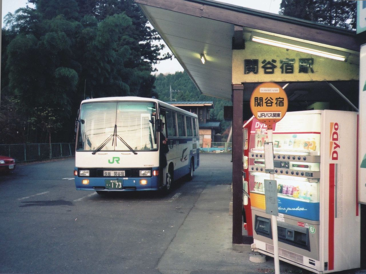 JR Bus Kanto Sekiyajuku Sta.